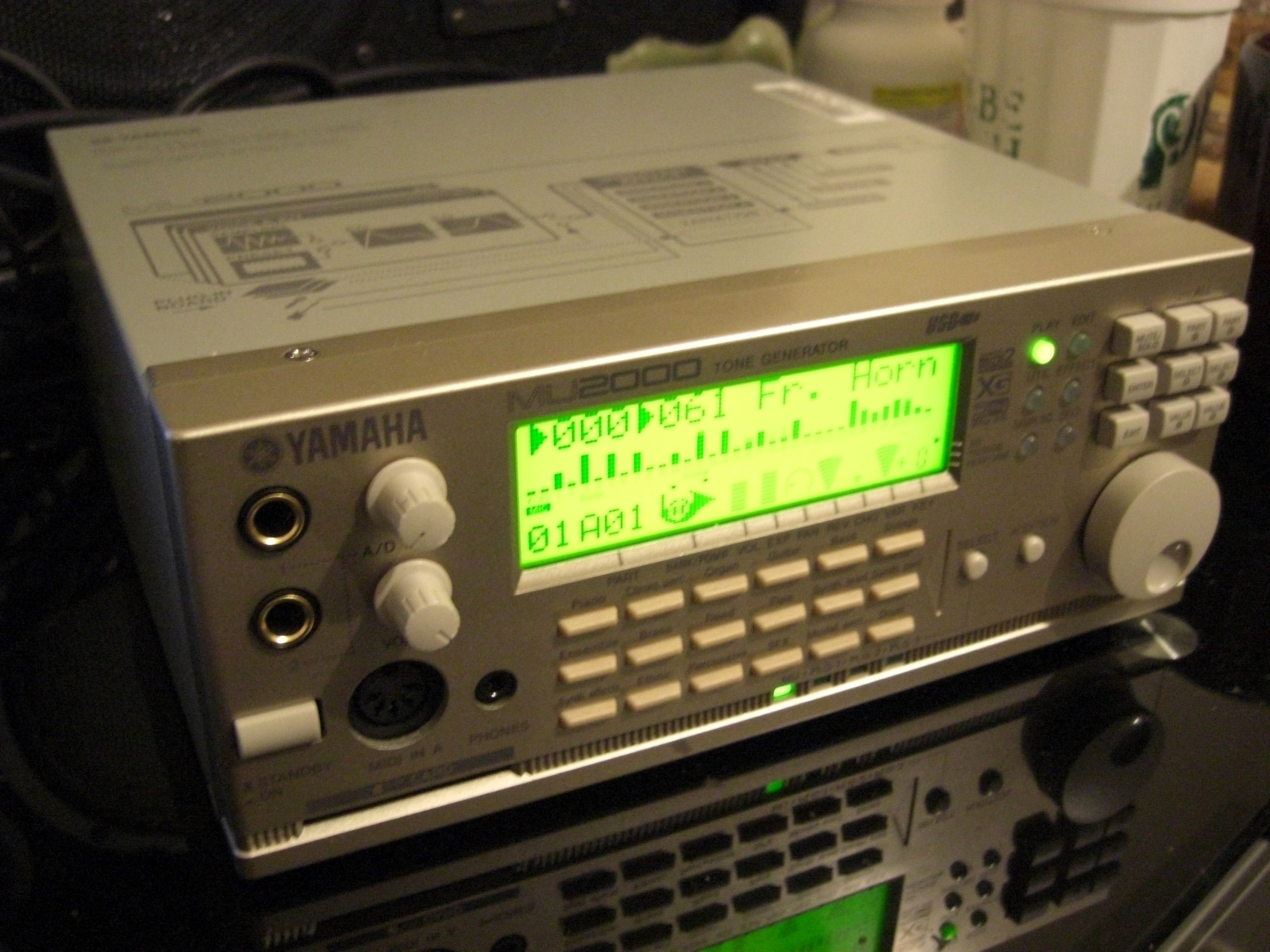 Yamaha MU2000 synthesizer/sequencer with EX firmware upgrade.